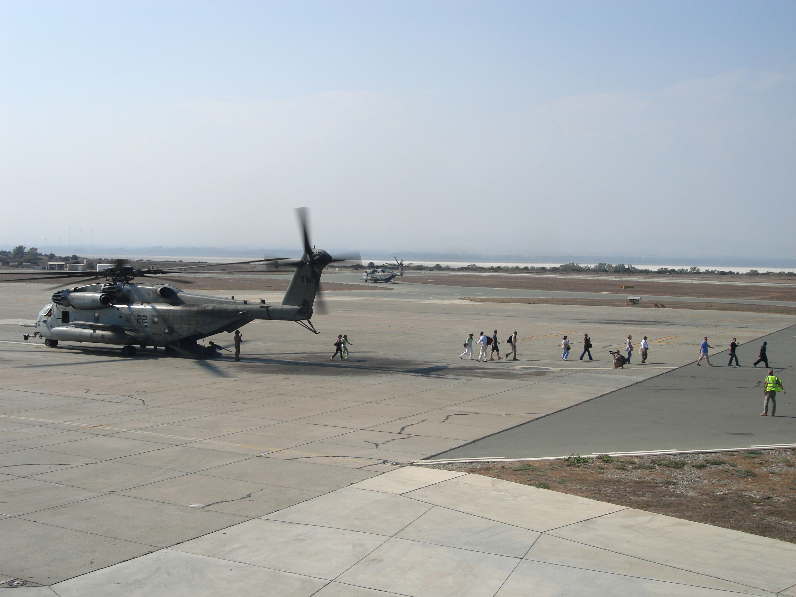 U.S. citizens exit a U.S. Marine Corps Sikorsky CH-53E helicopter assigned to Marine Medium Helicopter Transport Squadron HMM-365, 24th Marine Expeditionary Unit, USS Iwo Jima (LHD-7), at RAF Akrotiri, Cyprus, following their departure from the U.S. embassy in Beirut, Lebanon.